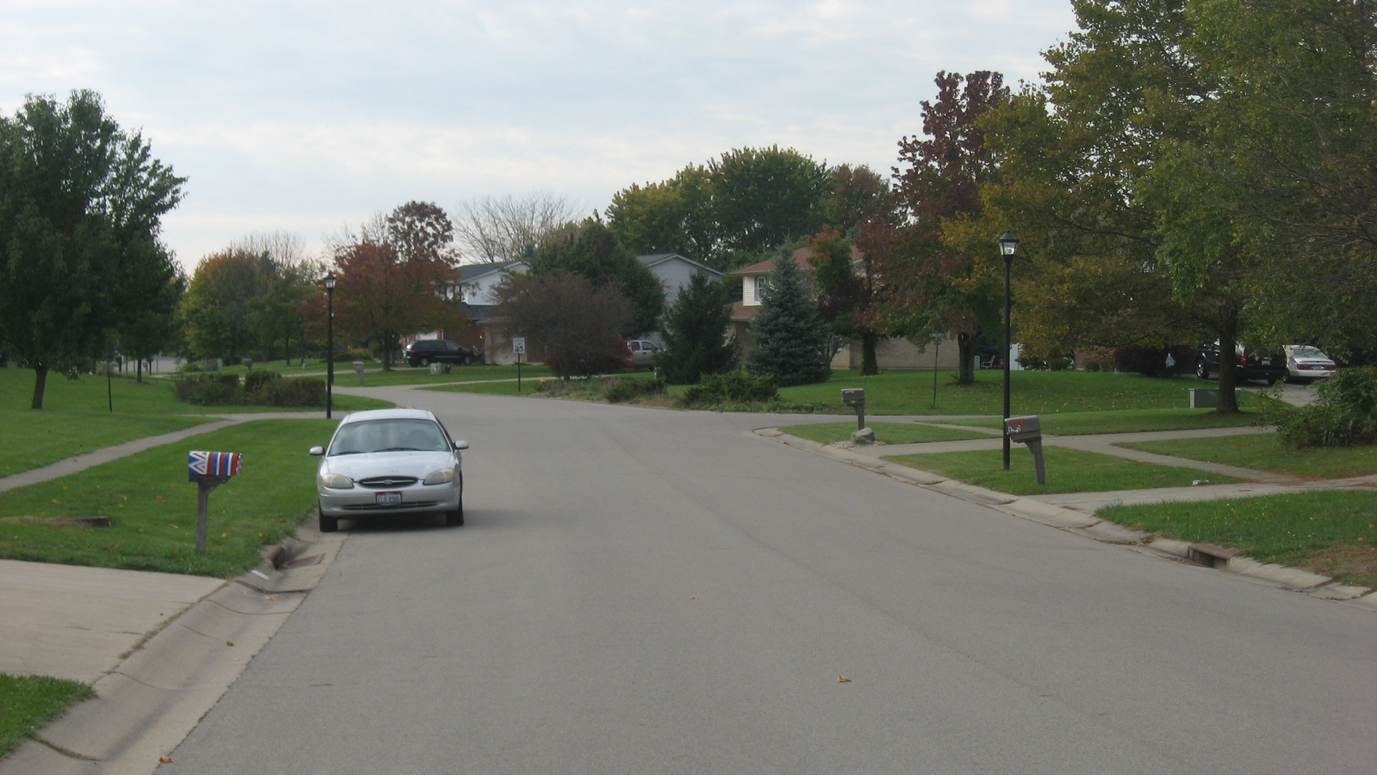 Looking west toward the intersection of Lindsey Court and Devon Drive in Liberty Township, Butler County, Ohio, United States. This was once the site of the D.S. Rose Mound, an important archaeological site that was listed on the National Register of Historic Places in 1975; it was bulldozed to build this development, but it has not yet been removed from the Register.